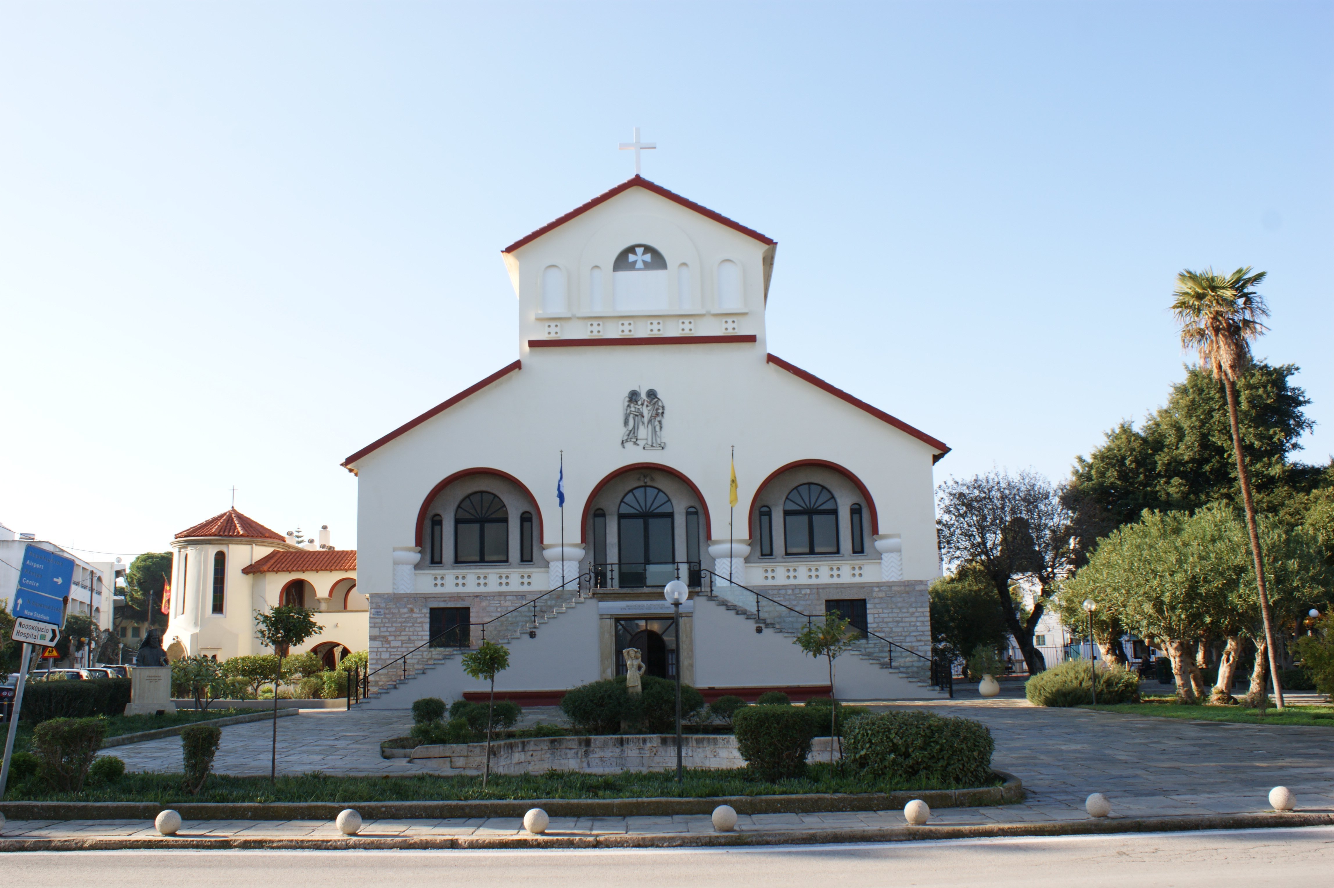 Cathedral (Metropolis) of Kos and Nisyros in the city of Kos on the Greek island of Kos.